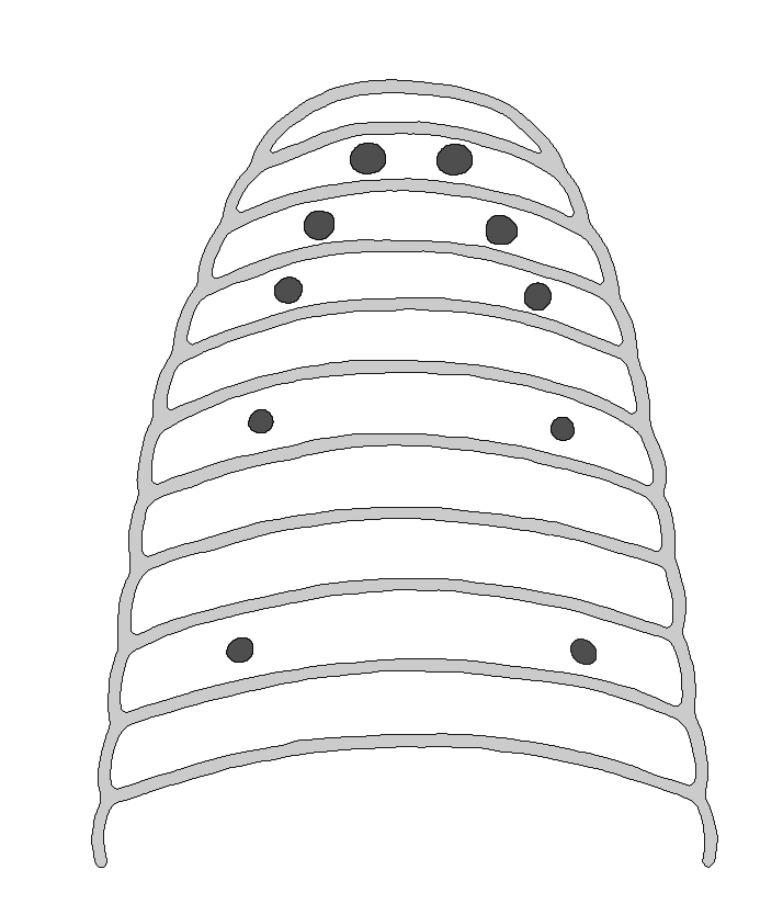 Eye position of the leech species Hirudo medicinalis and Haemopis sanguisuga.